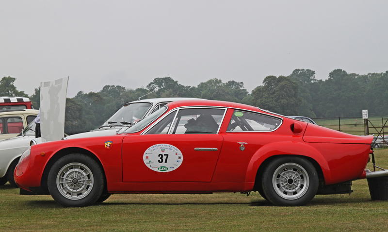 Abarth Simca 2000. The '2Mila' Abarth Simca began life as an Simca 1000 and threw most of it away to be replaced by Abarth body, a 1946cc Abarth engine of 200bhp, and a Simca Sabour chassis shortened by 4inches. The car was a Porsche 904 beater.